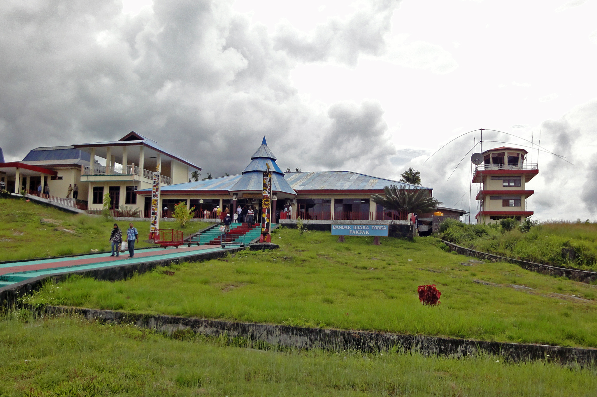 Photograph of Fakfak airport from airside, West Papua, Indonesia